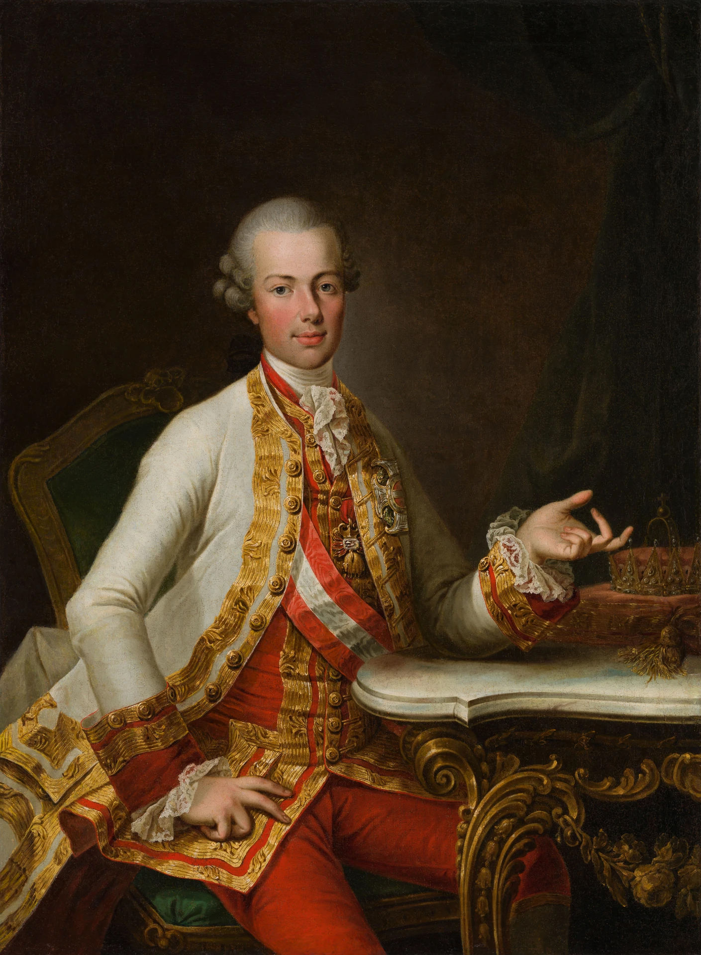 Leopold II, Holy Roman Emperor, while Archduke of Austria and Grand Duke of Tuscany, by Joseph Hickel, 1769. He wears the uniform of a general officer in the Austrian Army.